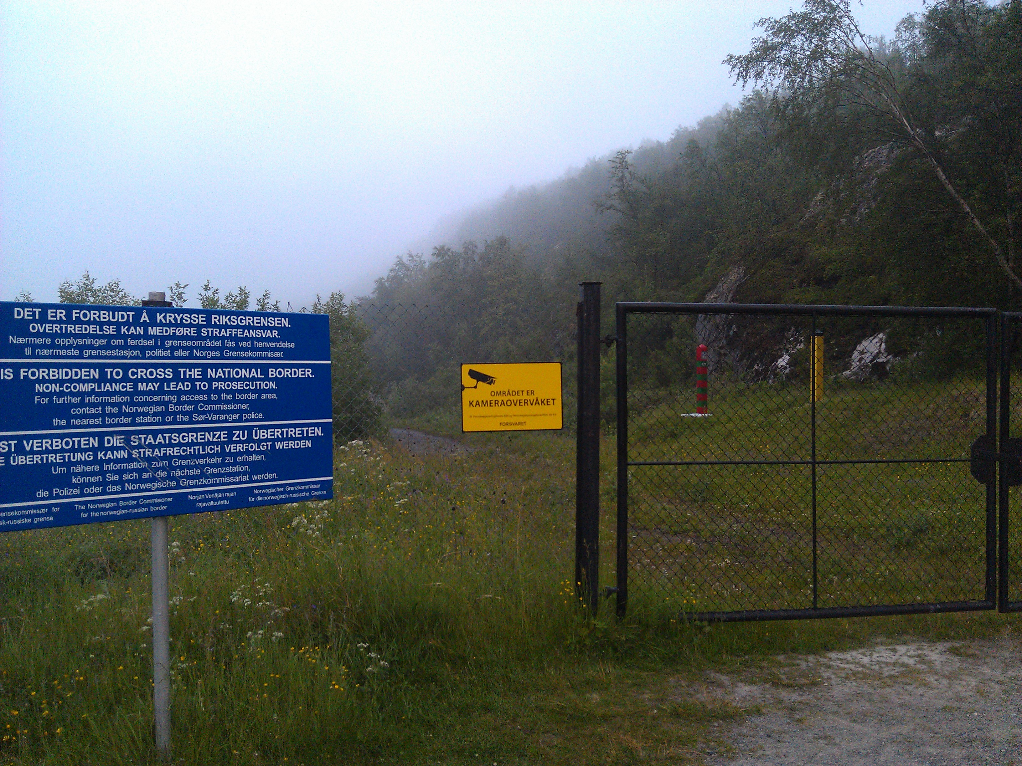 The Norwegian-Russian border seen from Skafferhullet, Elvenes, Norway. The border goes between the yellow and red posts behind the fence.